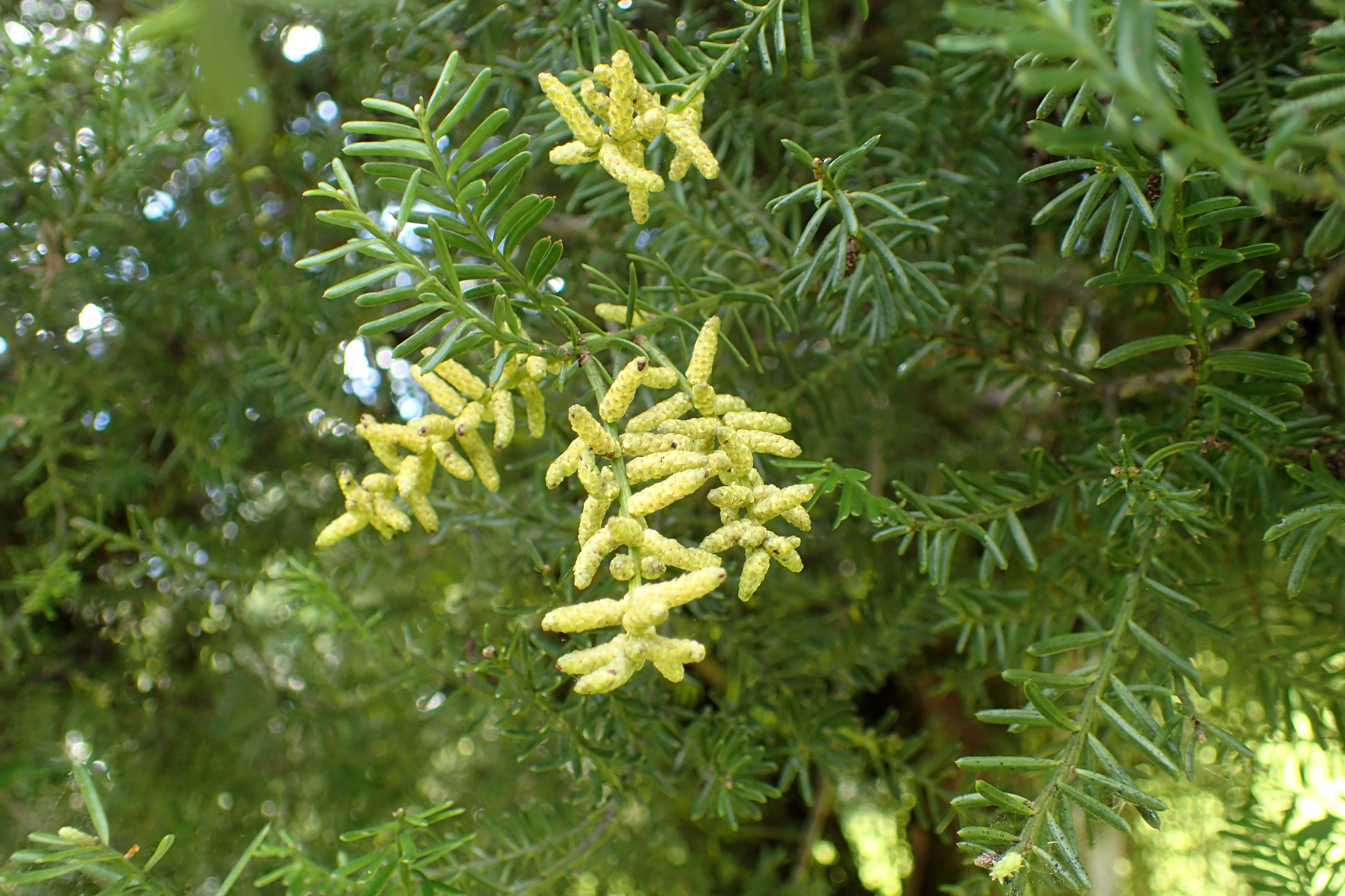 Prumnopitys taxifolia in Makarora, Otago (New Zealand)